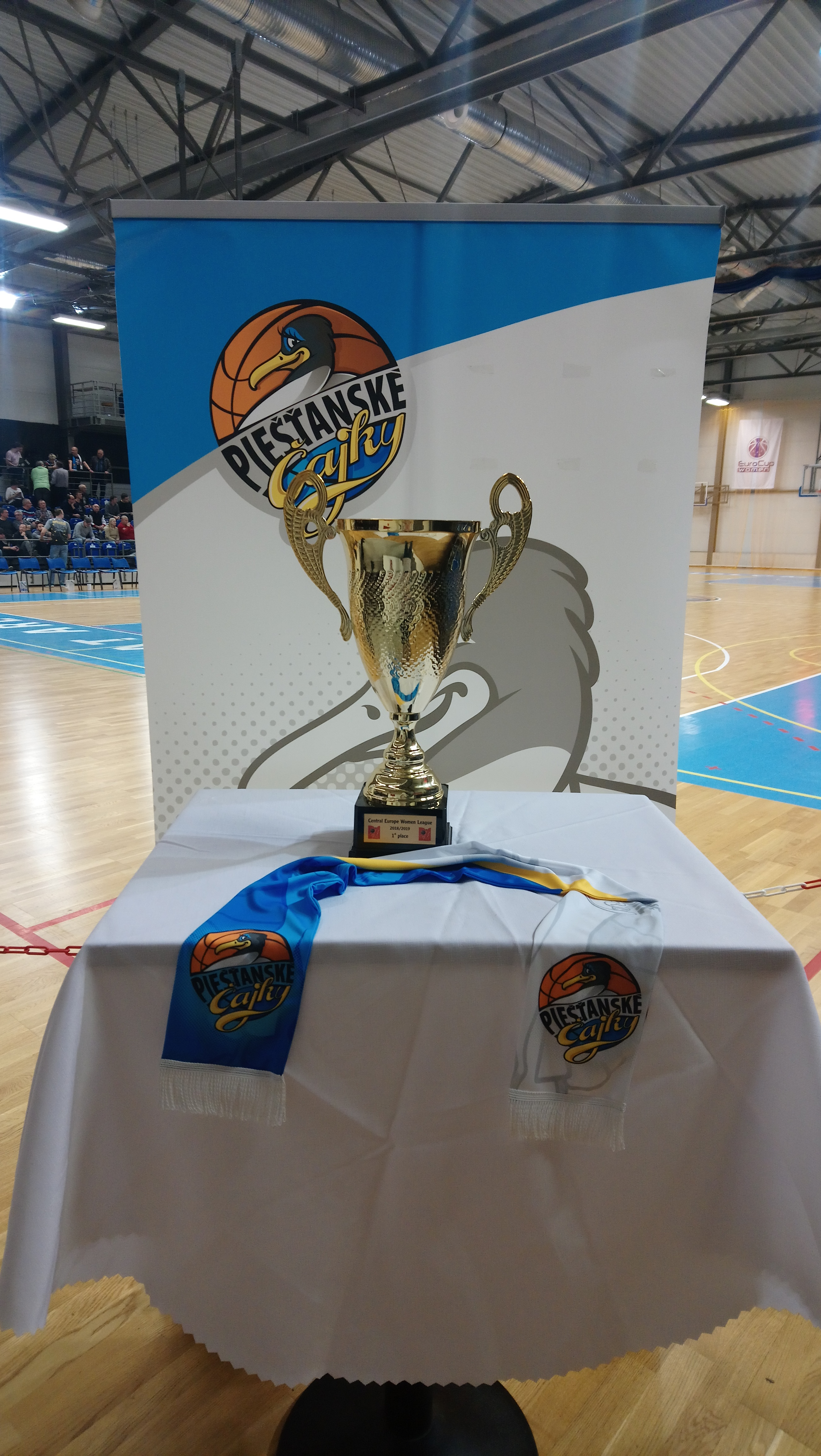 The CEWL Cup, which was won by Piešťanské Čajky in CEWL League in the season 2018/2019.